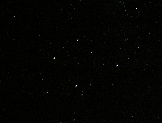 Southern Cross, viewed from Paea, Tahiti, French Polynesia